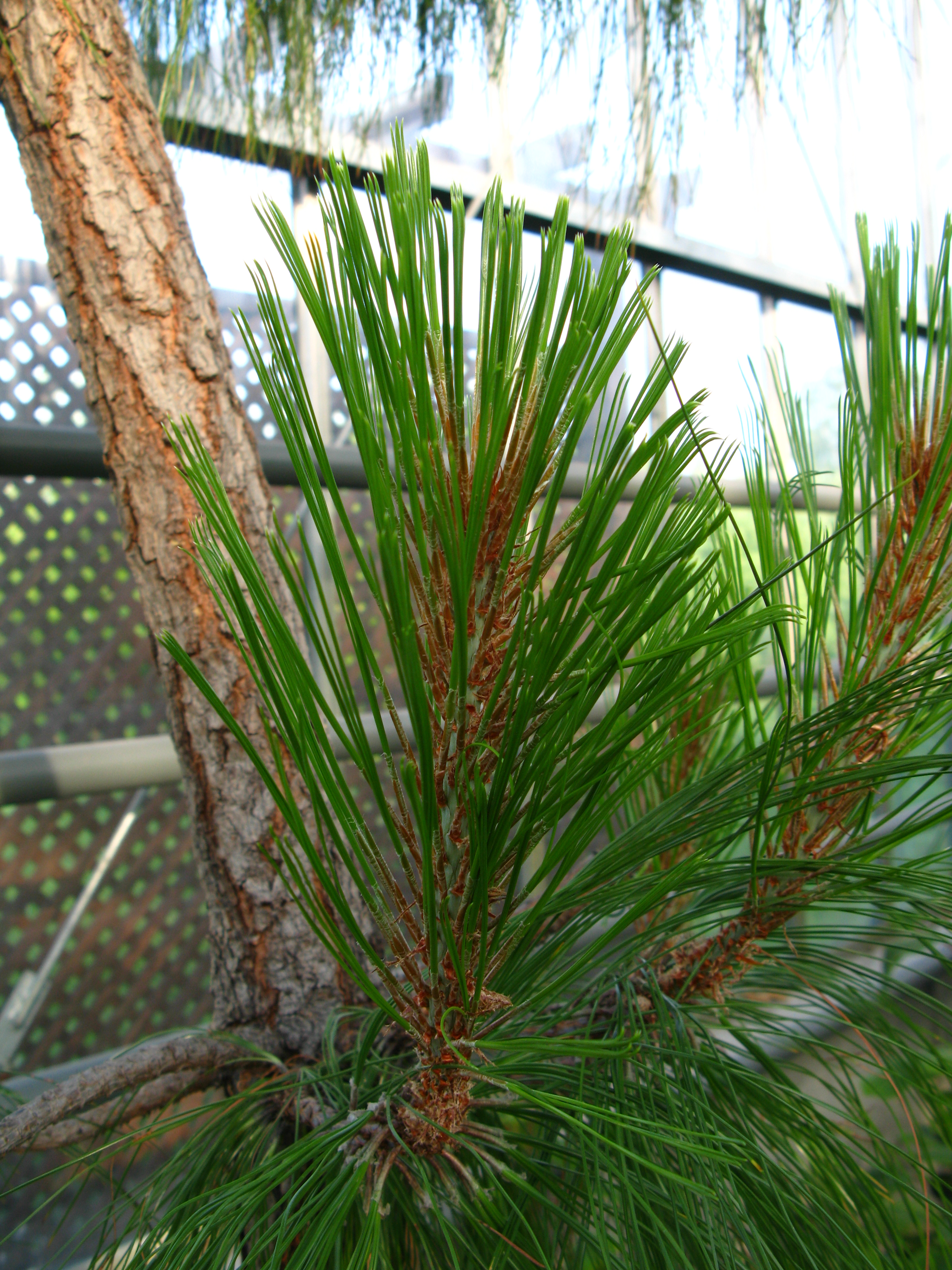 Pinus montezumae in PAN Botanical Garden in Warsaw (under glass)